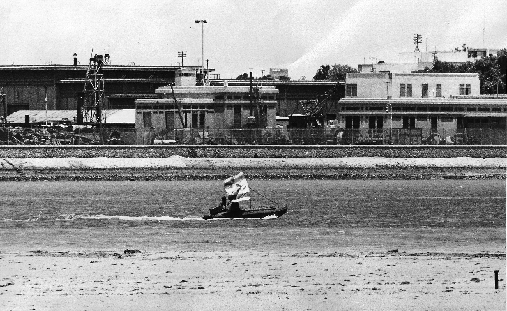 The small boat carrying the IN flag sailing in the Suez Canal